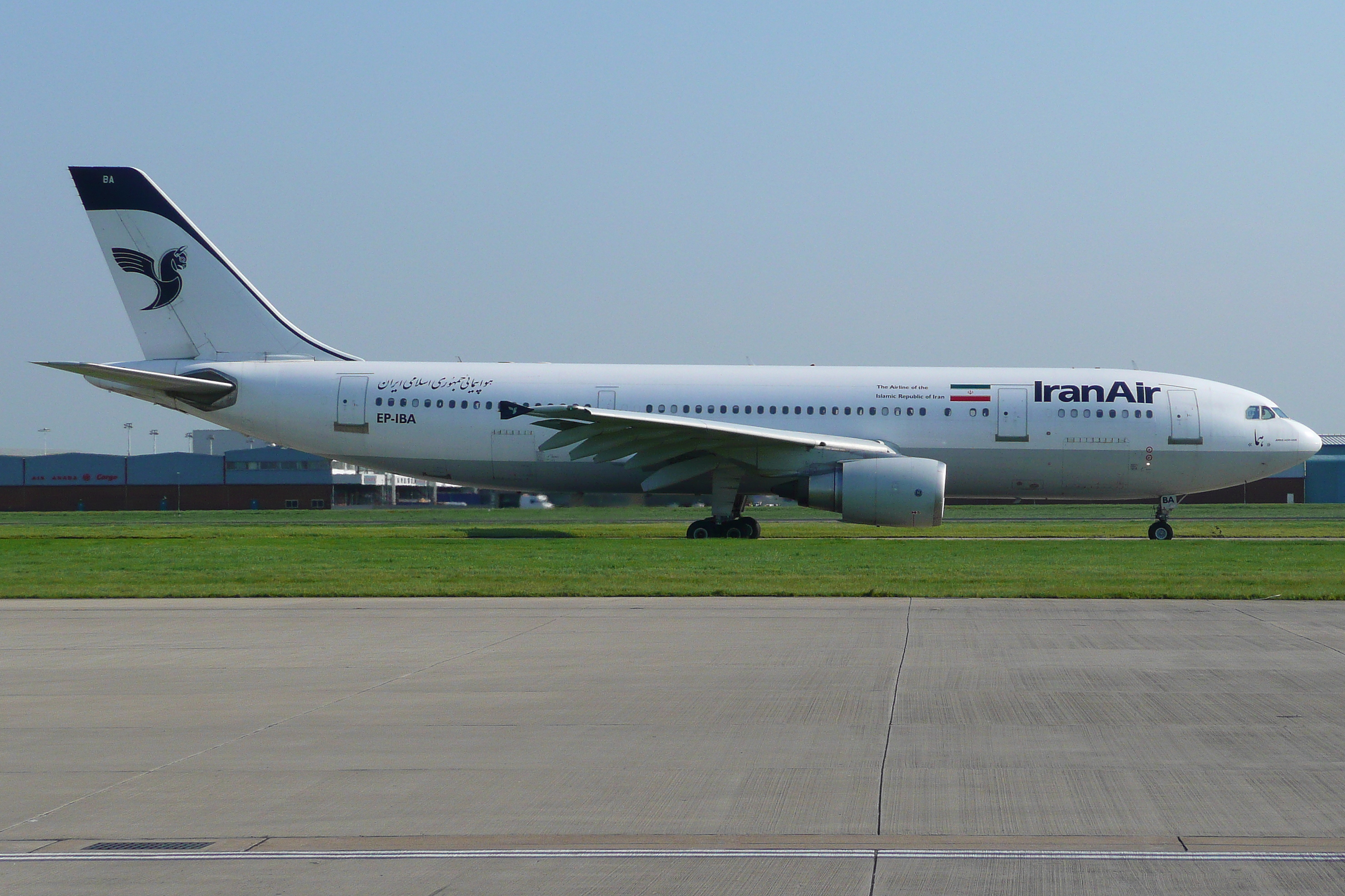 EP-IBA A300-600 Iran Air heading down for an 09R take off